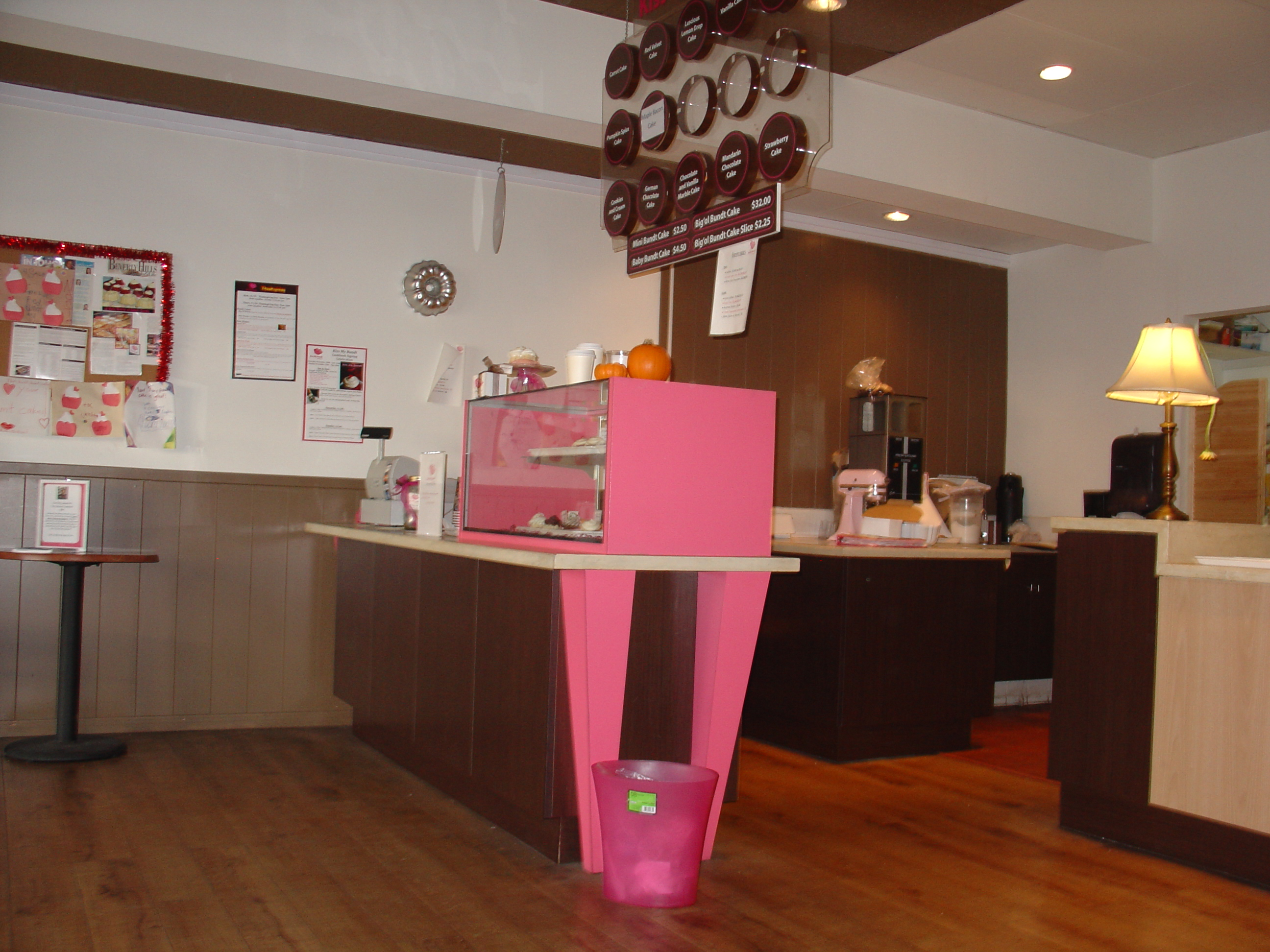 Kiss My Bundt Bakery interior view November, 2009. Photo by ChildofMidnight. Attribution required.